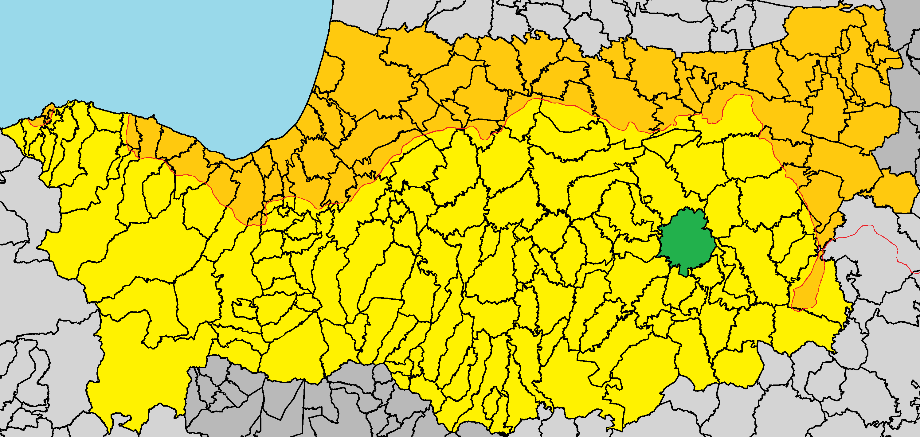 Tseri in Nicosia District.